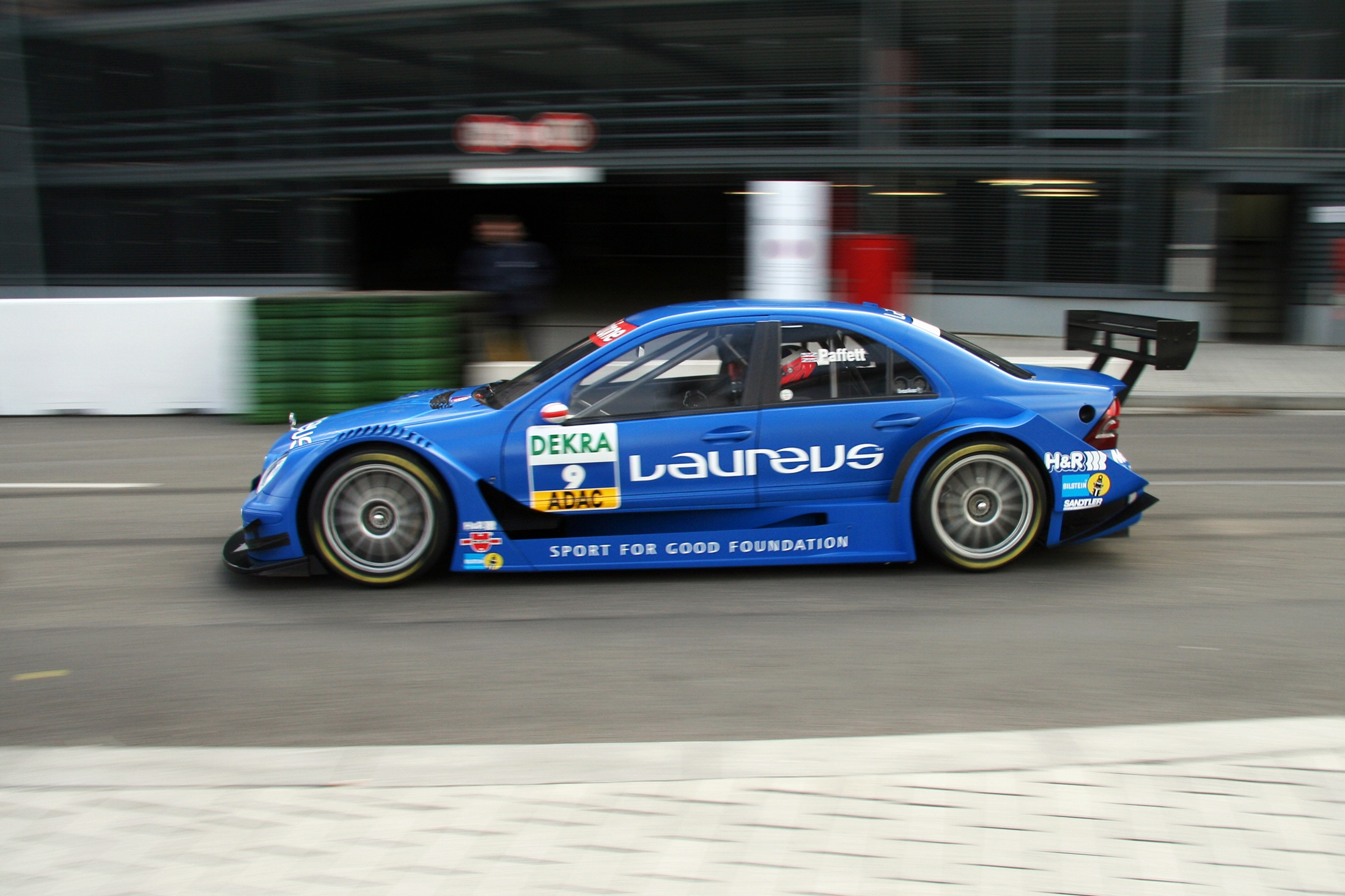 DTM car Mercedes-Benz Season 2007 (C-Class, W203), Gary Paffet (driver)